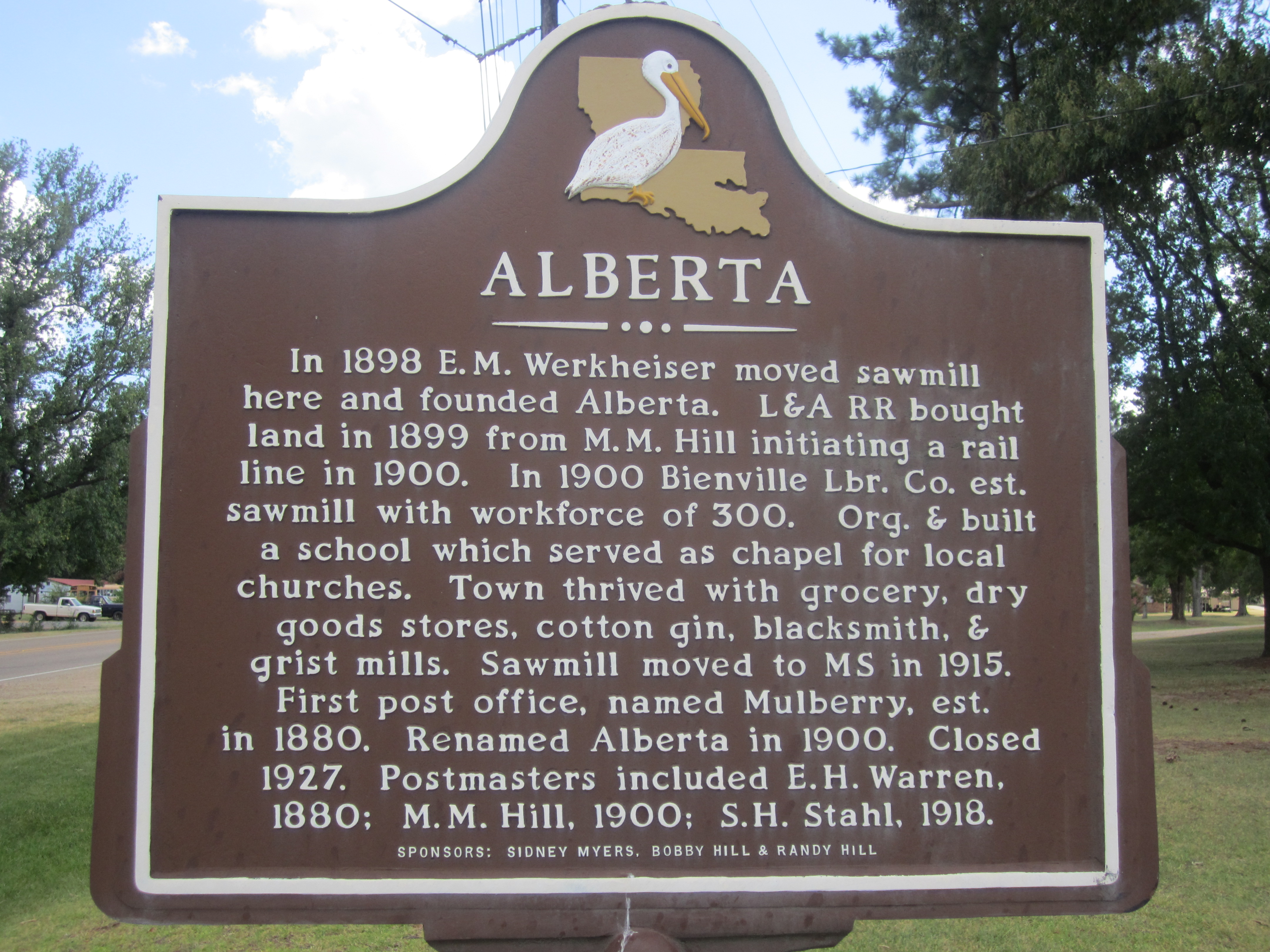 I took photo with Canon camera of Alberta, LA, historical marker.